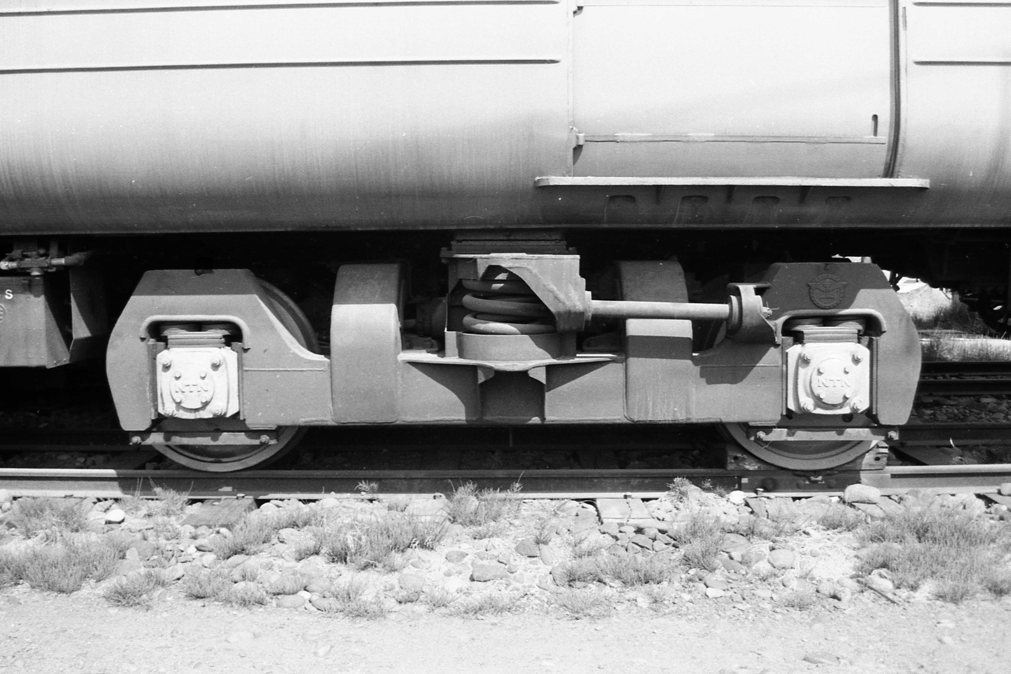 TS-301 bogie truck on Tokyu 5101